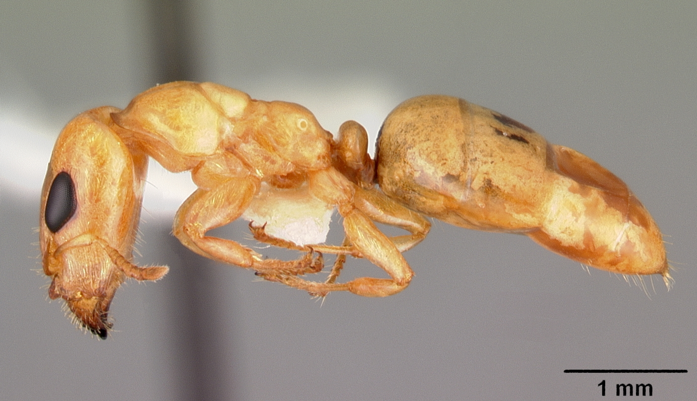 Profile view of ant Gesomyrmex howardi specimen casent0102384.